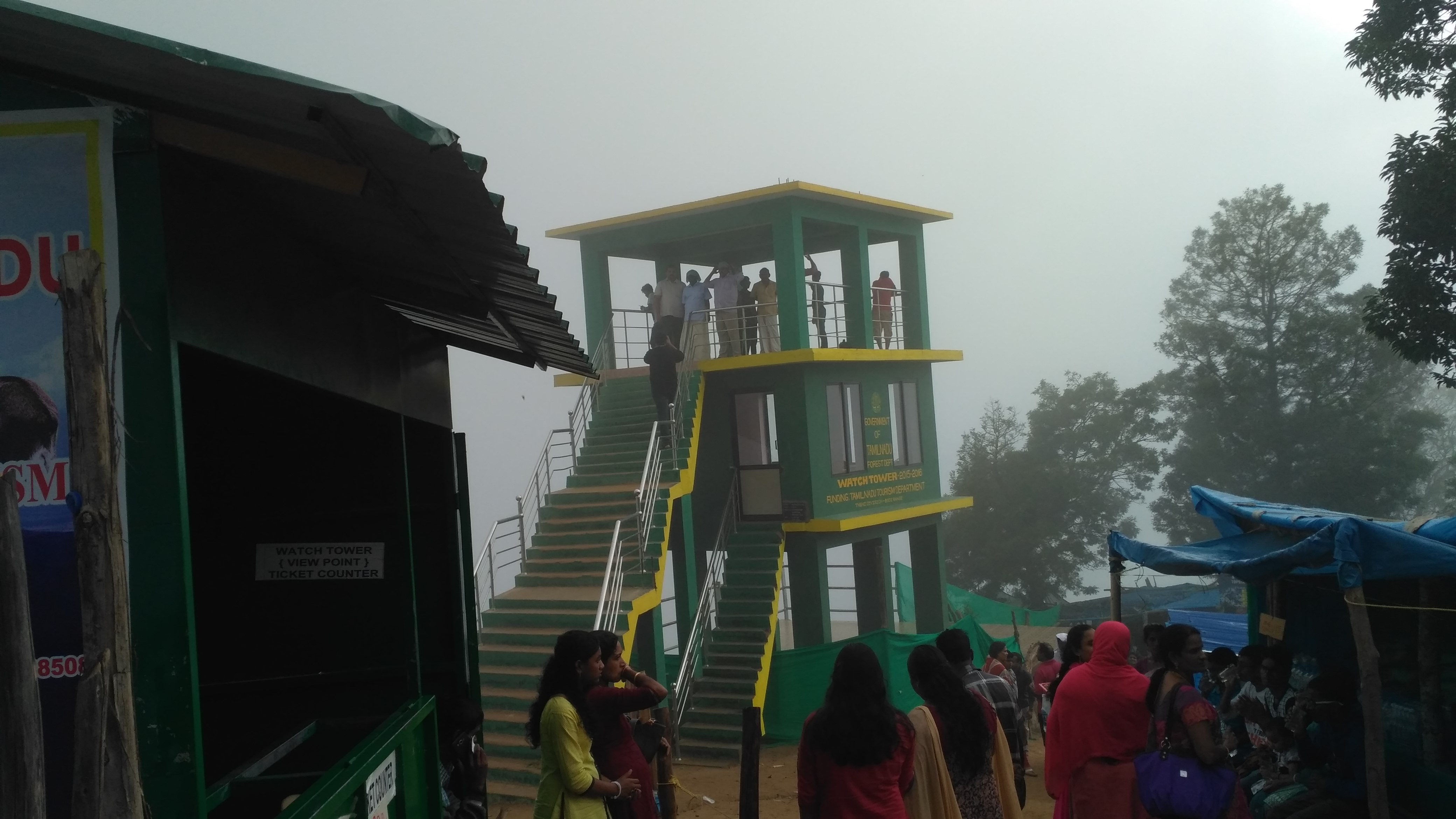 top station view point